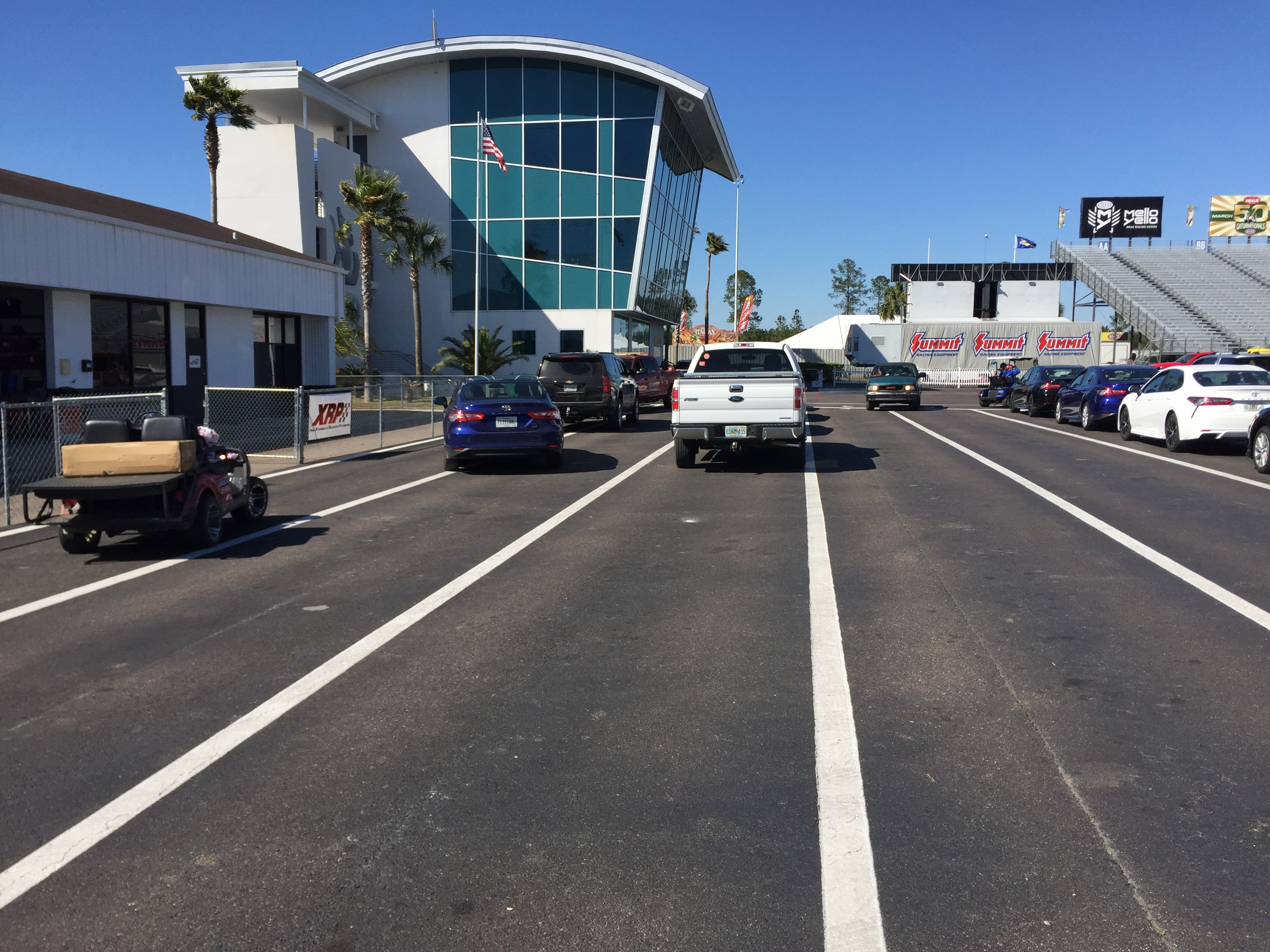 Pre Gatornationals -- Gainesville Chamber of Commerce